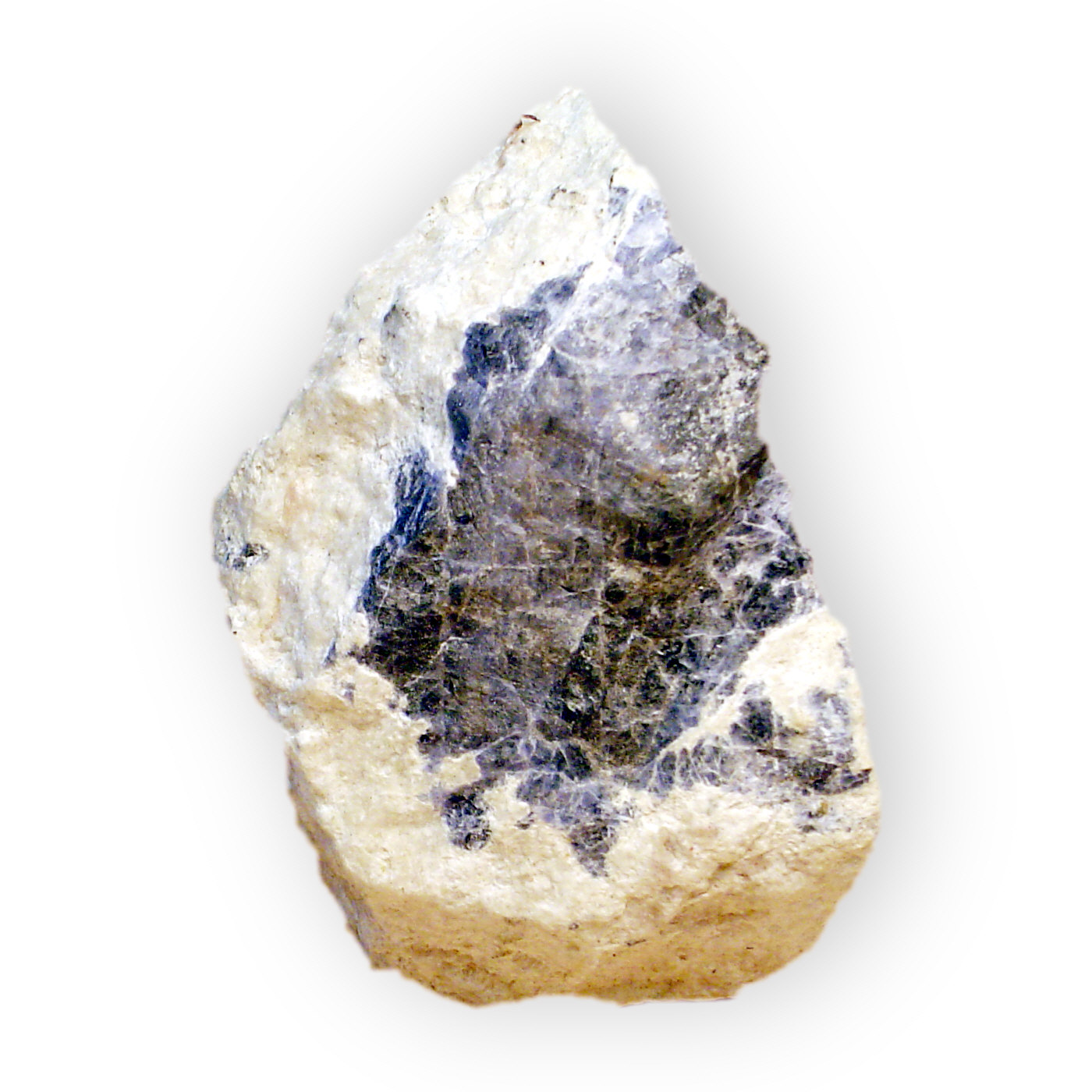 These mineral images are free to use how you wish.